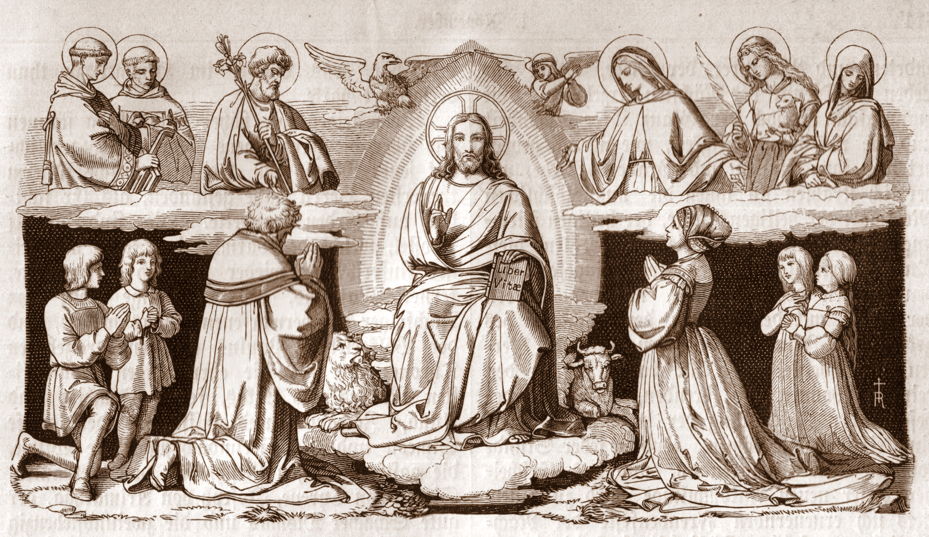 picture of All Saints, especially patrons for month November with Jesus in middle and inscription in